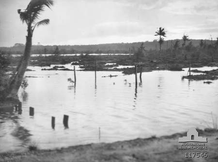 A photograph of the swamp position occupied by B Company, 2/26th Battalion on Singapore during late January/early February 1942. Photograph taken after the war on 27 September 1945.